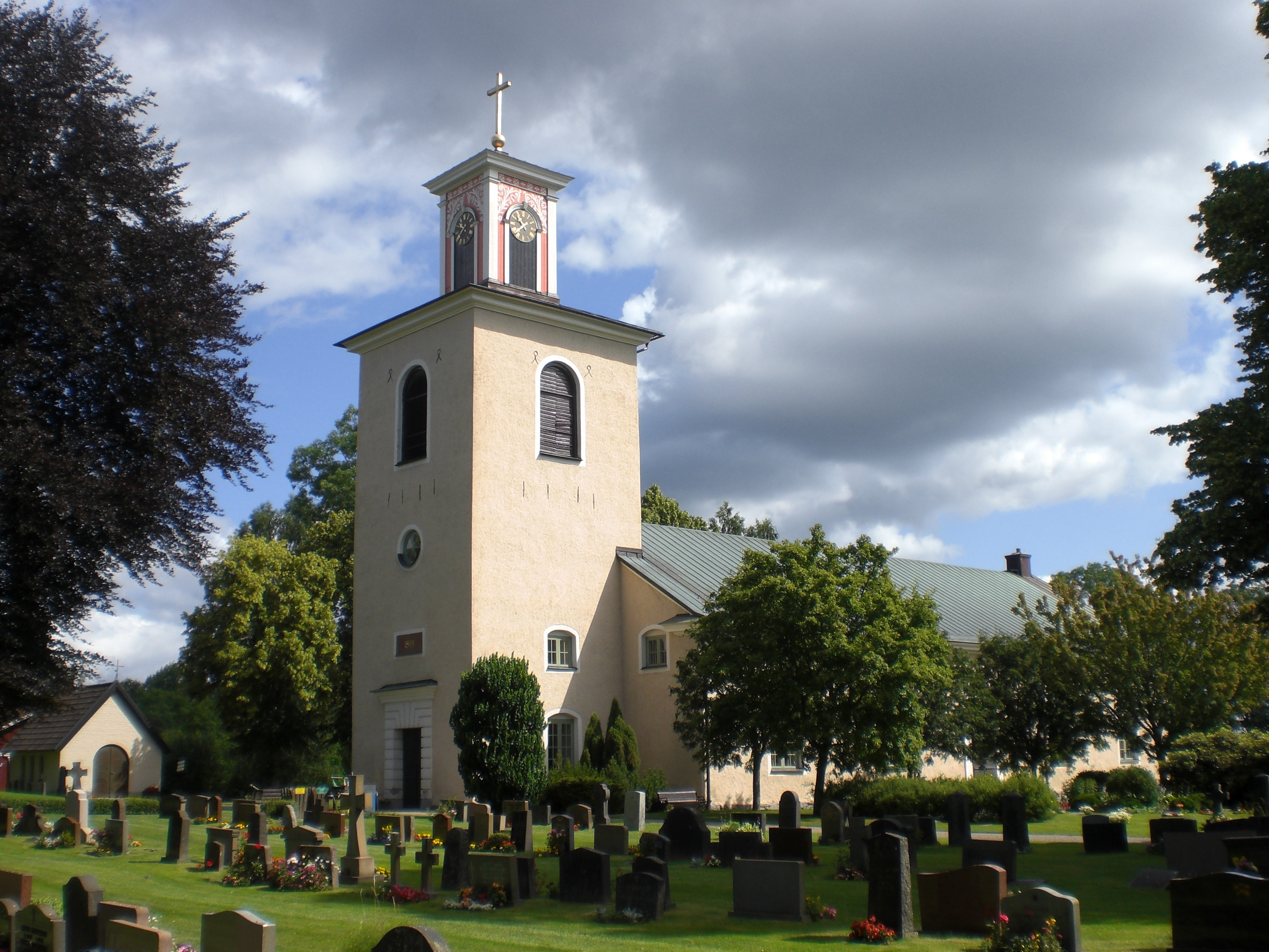 Ljuder church exterior, Småland, Sweden